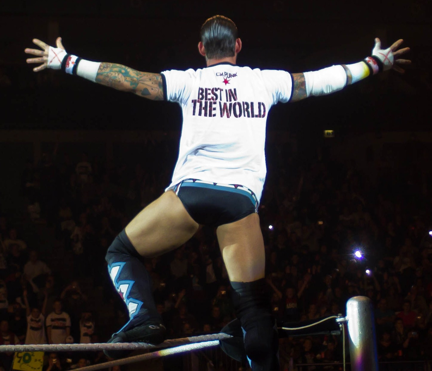 CM Punk at a WWE Raw house show in London on November 11, 2011